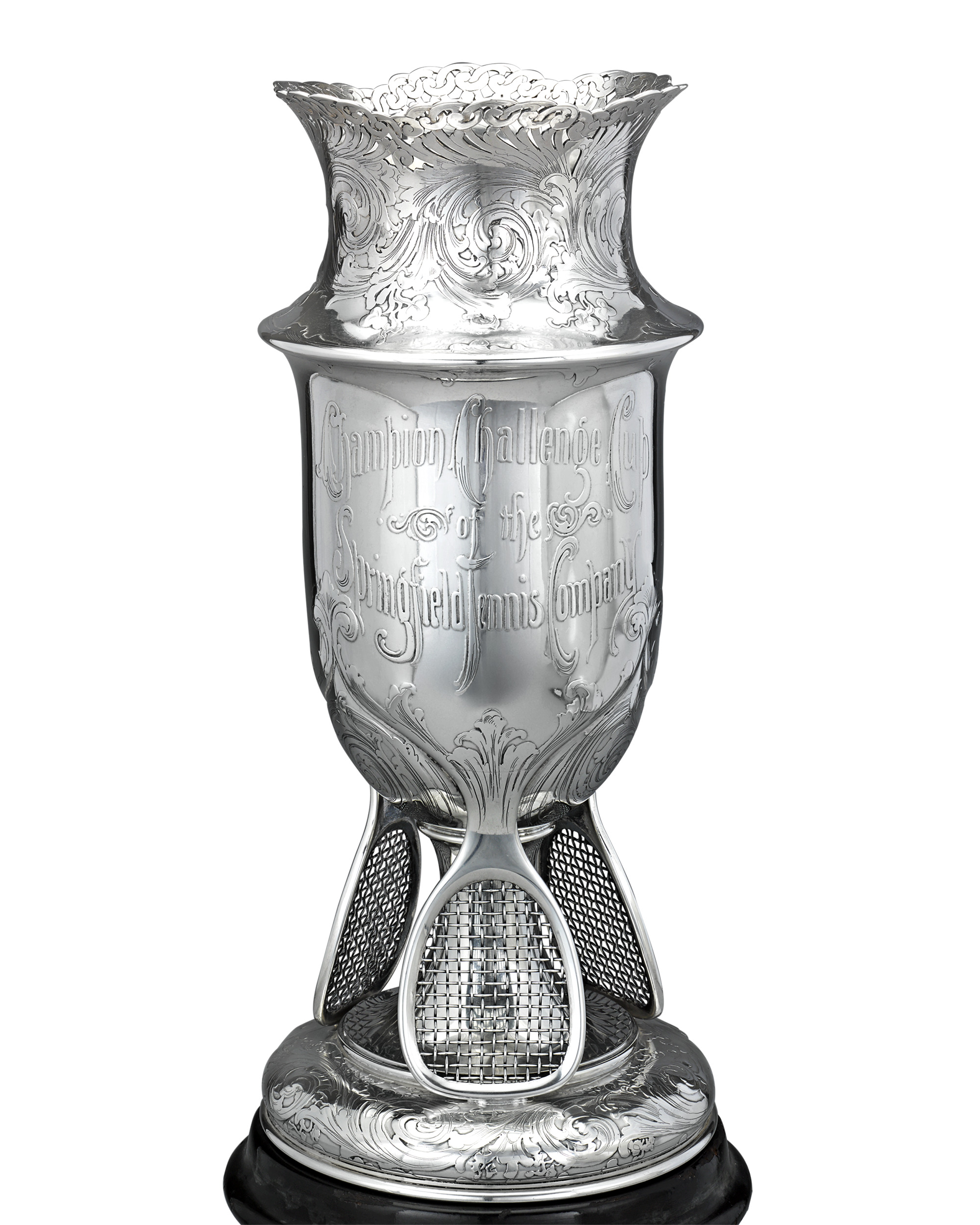 Tiffany & Co. Silver Tennis Trophy. Marked "Tiffany & Co. / Sterling Silver". Dated 1888-1891